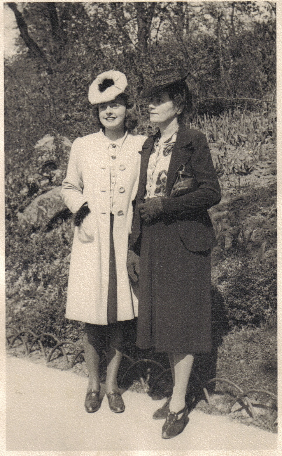 Agnelle Bundervoet and her mother